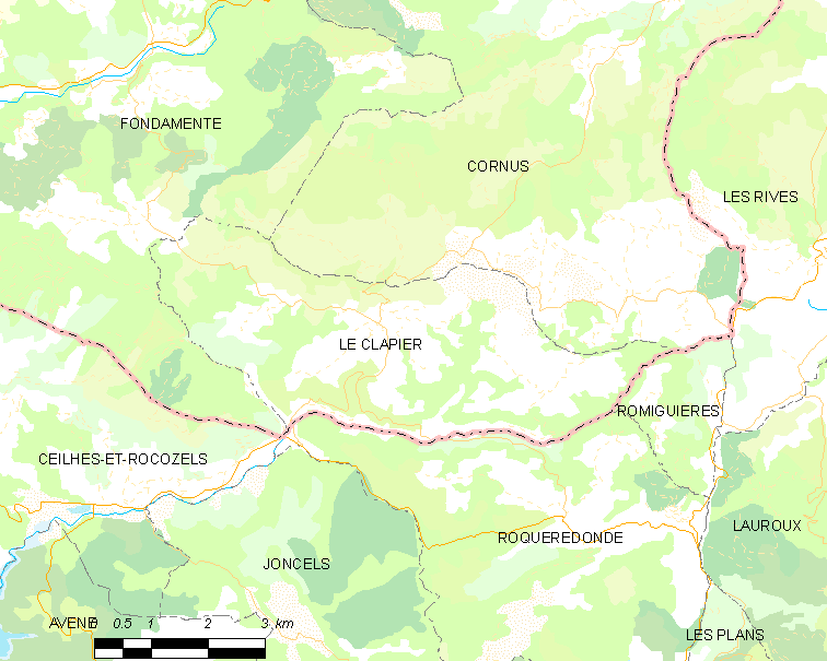 Map commune FR insee code 12067.png - Le Clapier